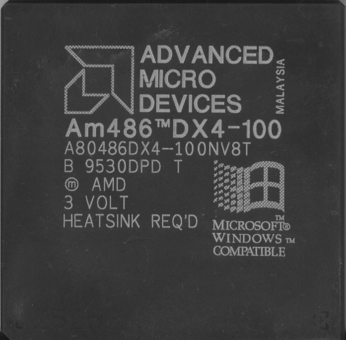 AMD Am486DX4-100 CPU with write-through cache